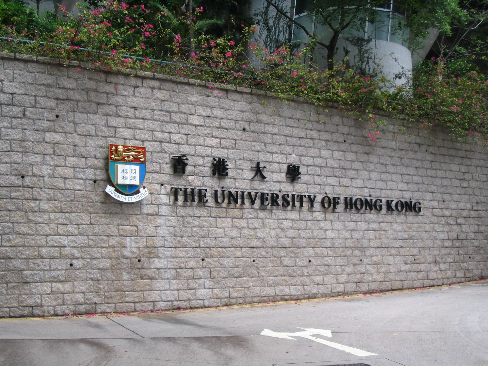 Photo of Pok Fu Lam Road Entrance (West Gate) of The University of Hong Kong